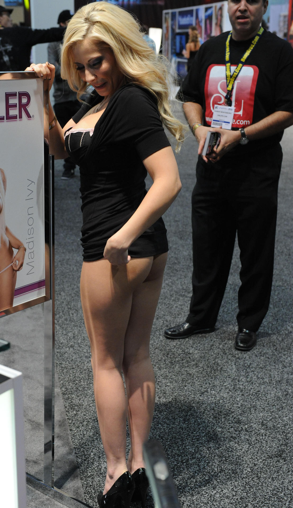 Madison Ivy at AVN Adult Entertainment Expo 2011